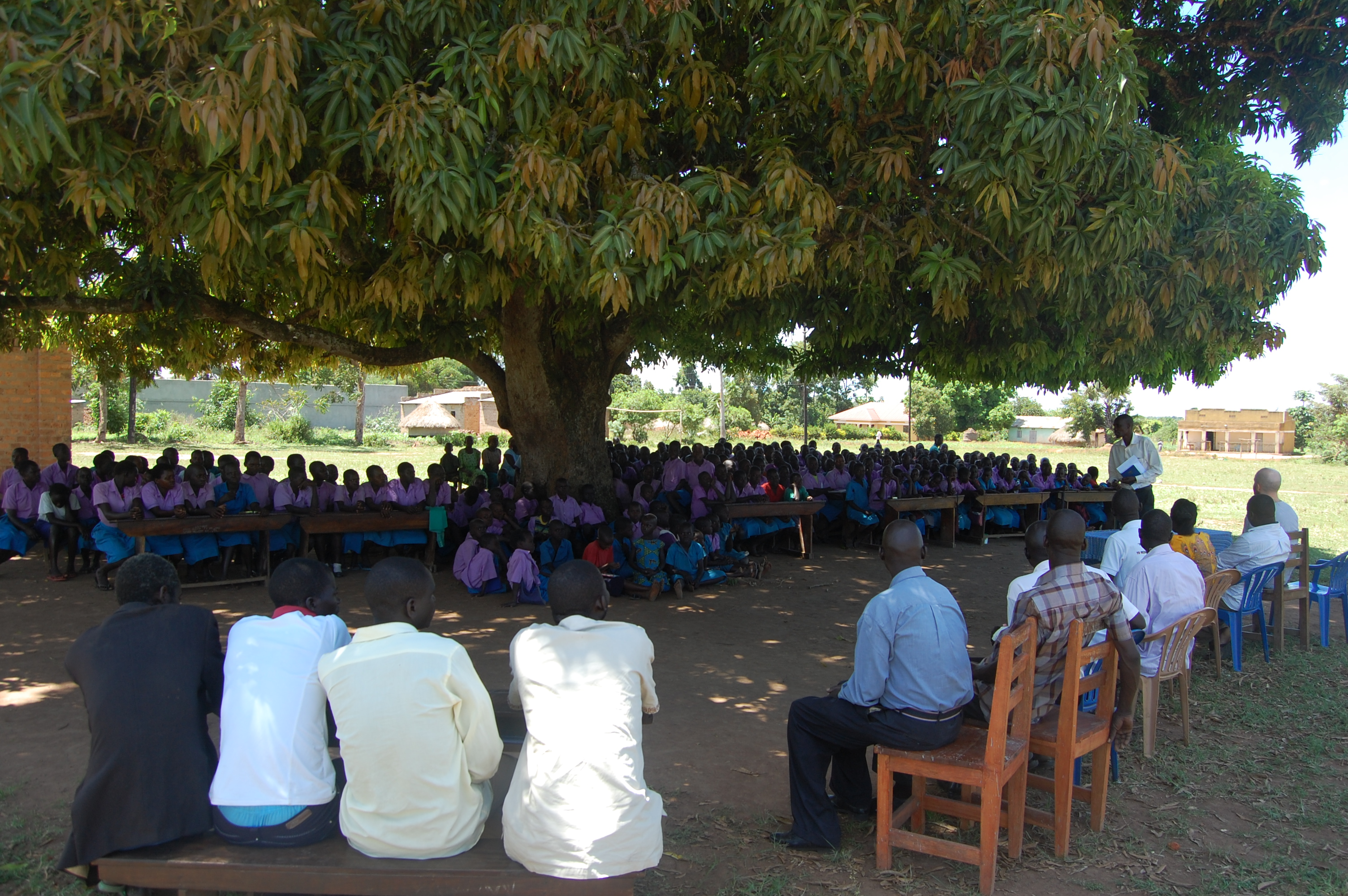 Meeting under the mango tree - Abari PS CO2balance solar project, Uganda